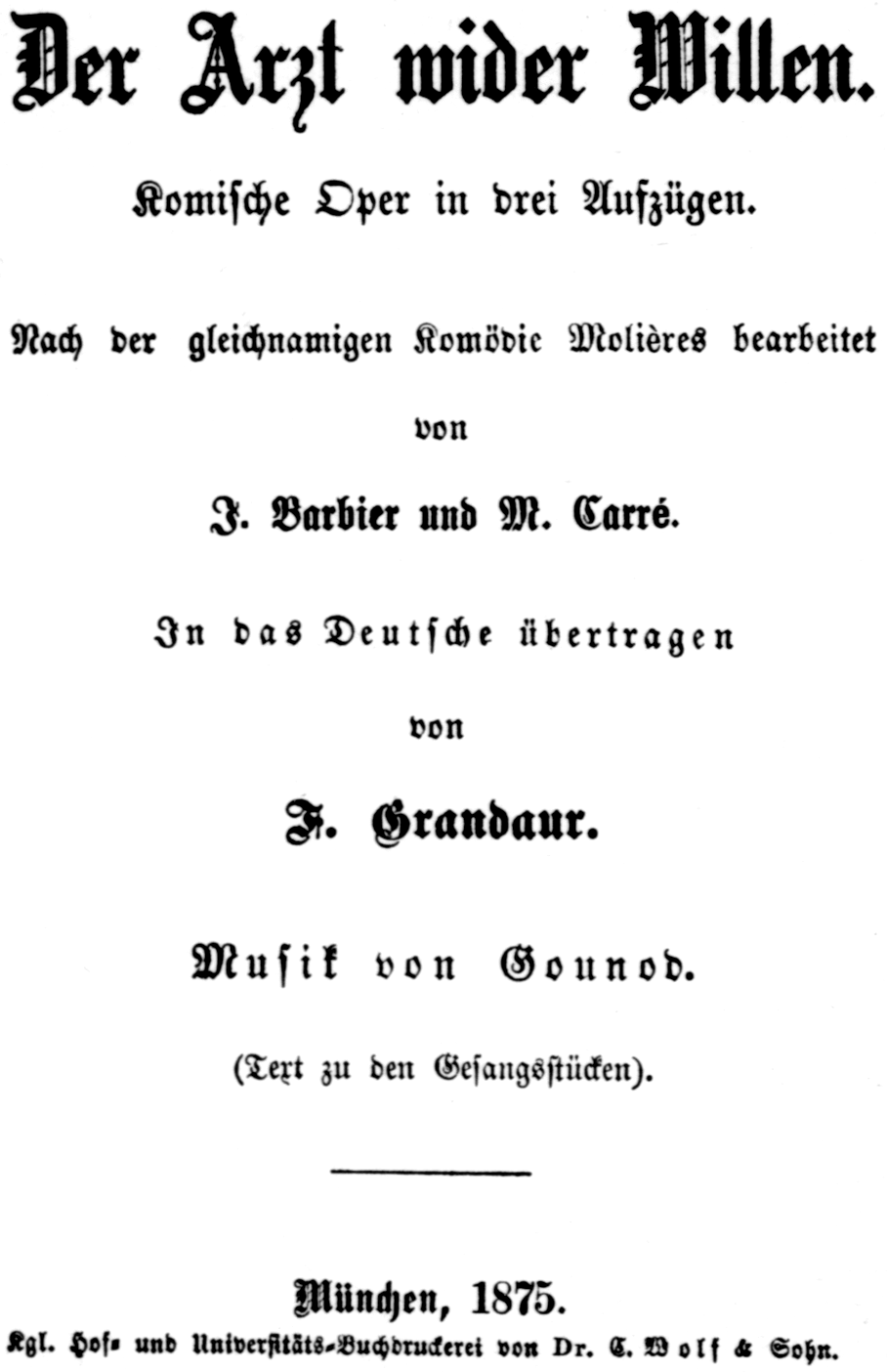 Gounod - Le Médecin malgré lui - Der Arzt wider Willen - title page of the german libretto, translator: Franz Grandaur - Munich 1875